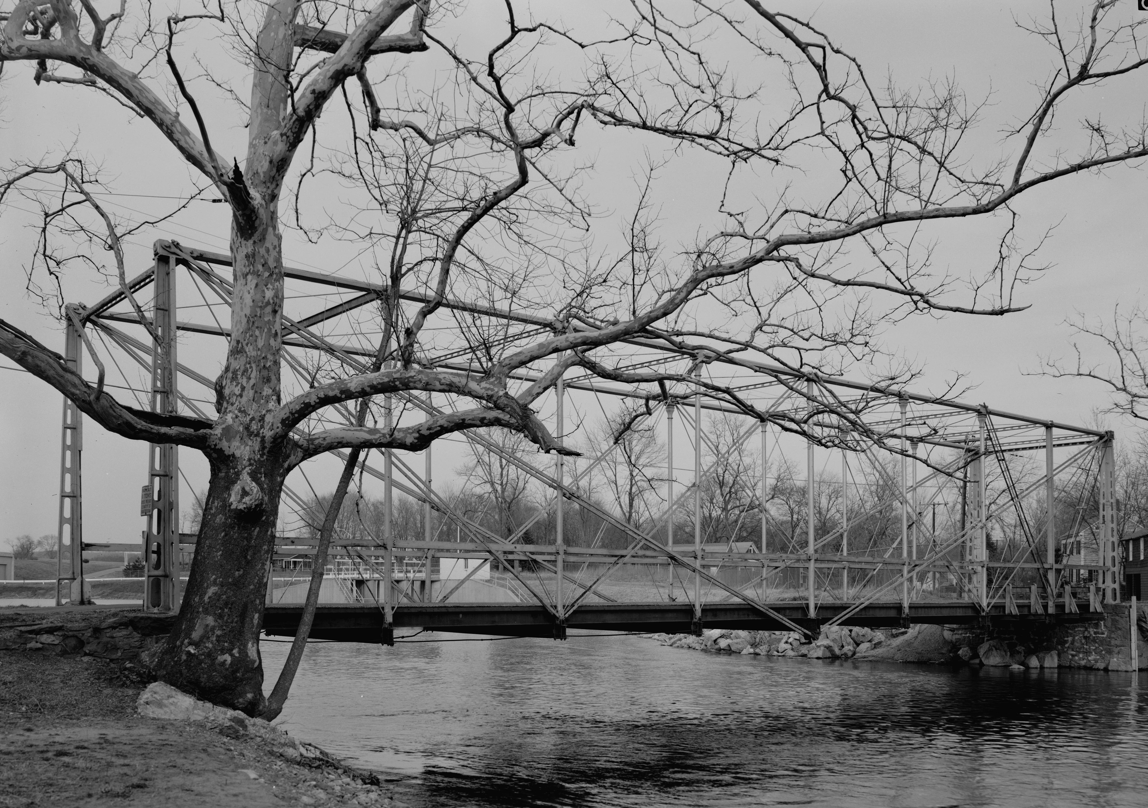 Fink Through-Truss Bridge, unterdon CoHunterdon County Government Complex (moved to), Flemington vicinity, Hunterdon County (New Jersey).